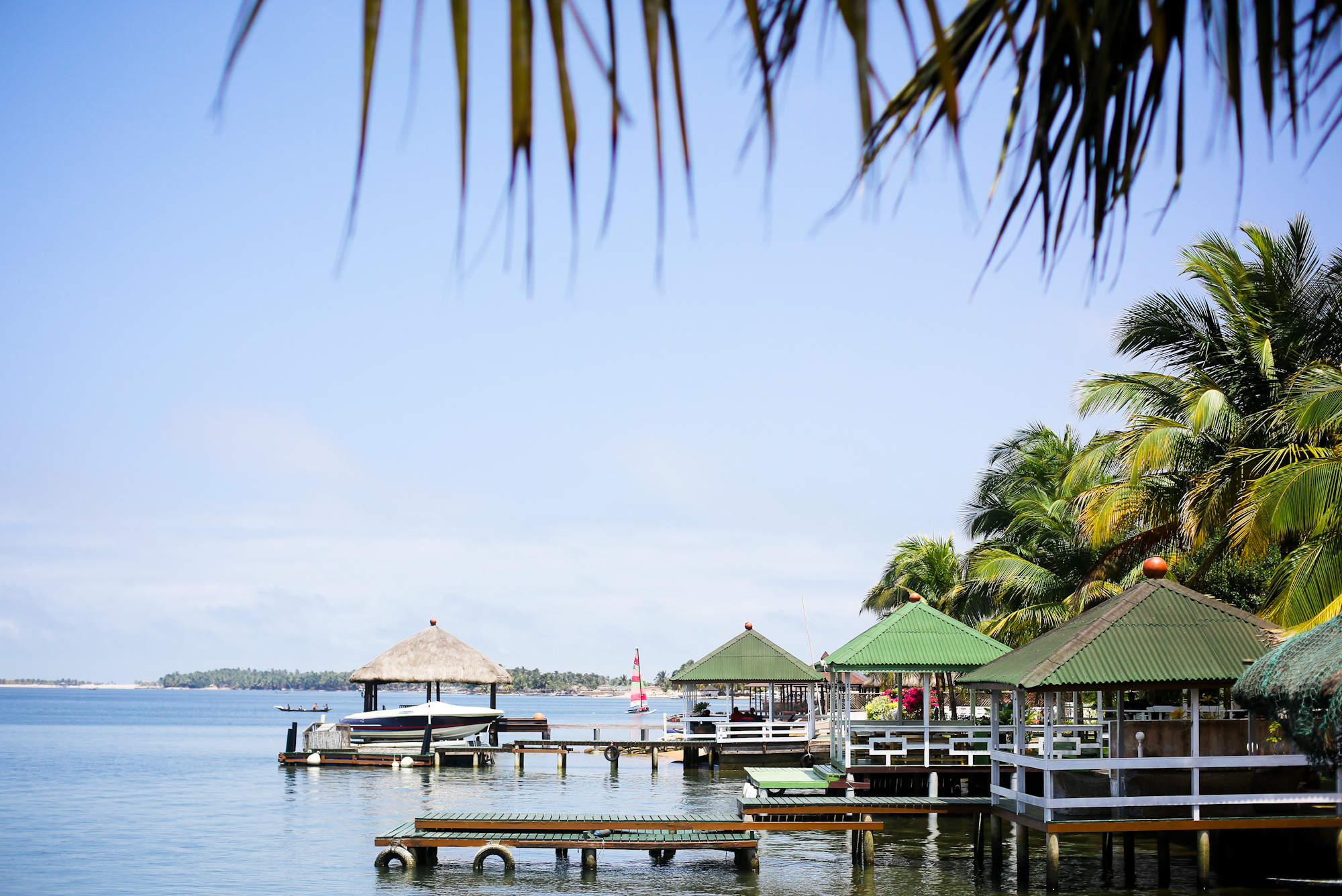 Tropical climate luxury beach resort on the coastline of south Ghana.